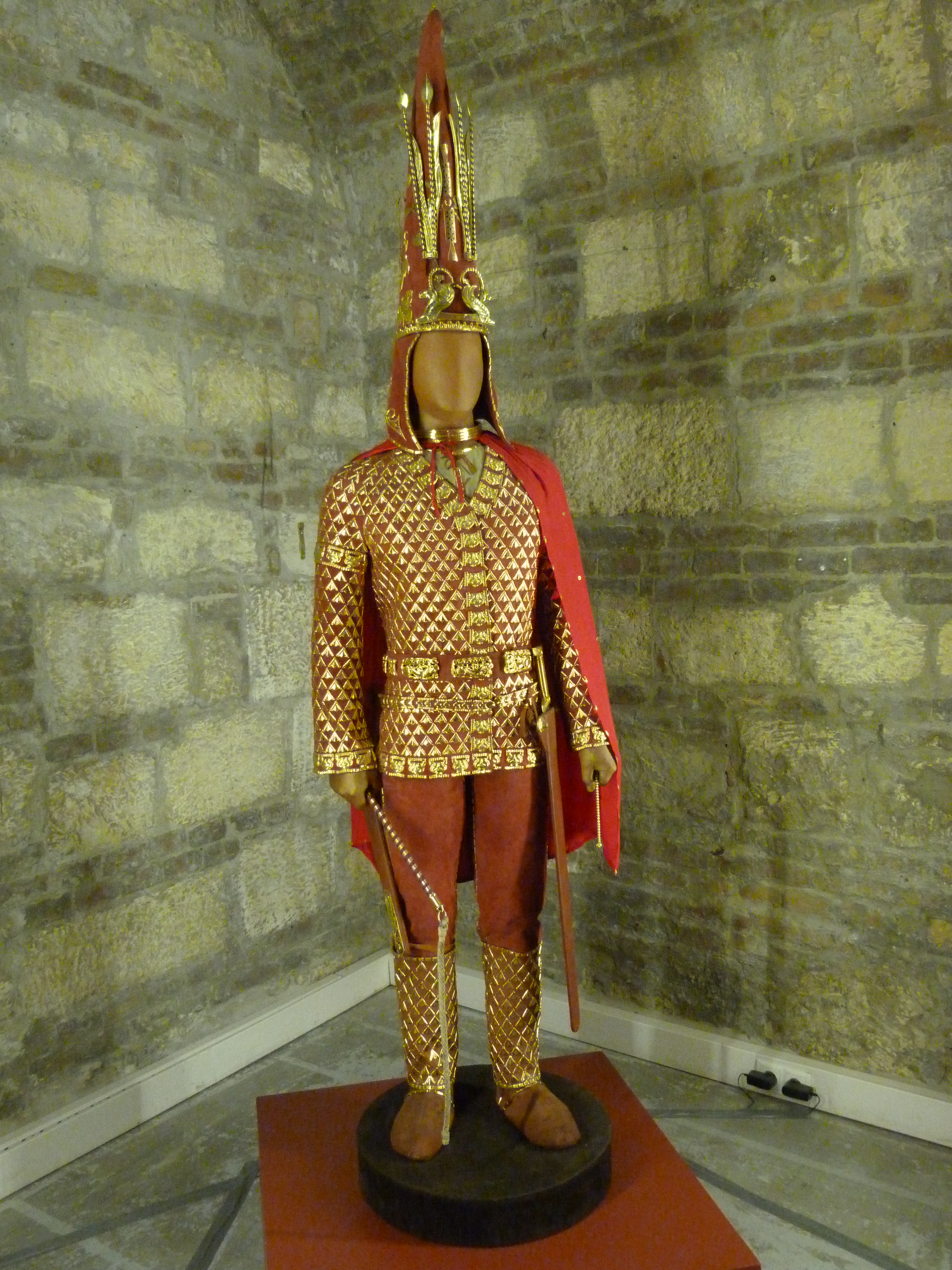 Scythians ! Great, honorable men ! Remember the beginning of your way ! He used to call himself the ruler of the Sun. 180 cm tall, 16-17 years old. In his hand the symbol of supreme power: the scourge. Reconstruction by Krym Altynbekov. Burial mound Issyk, Kazakhstan (V-IV BC). Live on the 13th of November, 2012, Budapest, VAM Design Center. Published under Creative Commons in the Metapolisz DVD line. All of the photos and vids in the Metapolisz DVD line are under Creative Commons and can be used even for commercial - for profit - purposes. Recommended citation: Derzsi Elekes Andor: Metapolisz DVD line Sources:Сенсационной называют свою находку археологи, обнаружившие в Карагандинской области «золотого человека» Még mindig tagadnunk kell? Szkíta „aranyembert” találtak a kazah régészek A szkíta Napherceg Szkíta kincsekből nyílik egyedülálló kiállítás Budapesten: Badiny Jós Ferenc: a tatárlakai korong szövegének megfejtése: „Oltalmazónk! Minden titok dicső Nagyasszonya! Vigyázó két szemed óvjon, Napatyánk fényében!” Szathmáry megfejtése: „Egyetlen, magasztos Teljességünk leáldozóban, de Fény atyánk arca felemelkedik, ismét felragyog, s betölti dicsőségét!” Tags: Scythian Empire emperor Ruler of the Sun Issyk golden man Issyk kurgan Kazakhstan Ostrov Krym saka